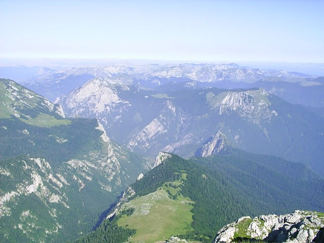 A view from Maglić to the north, to BiH